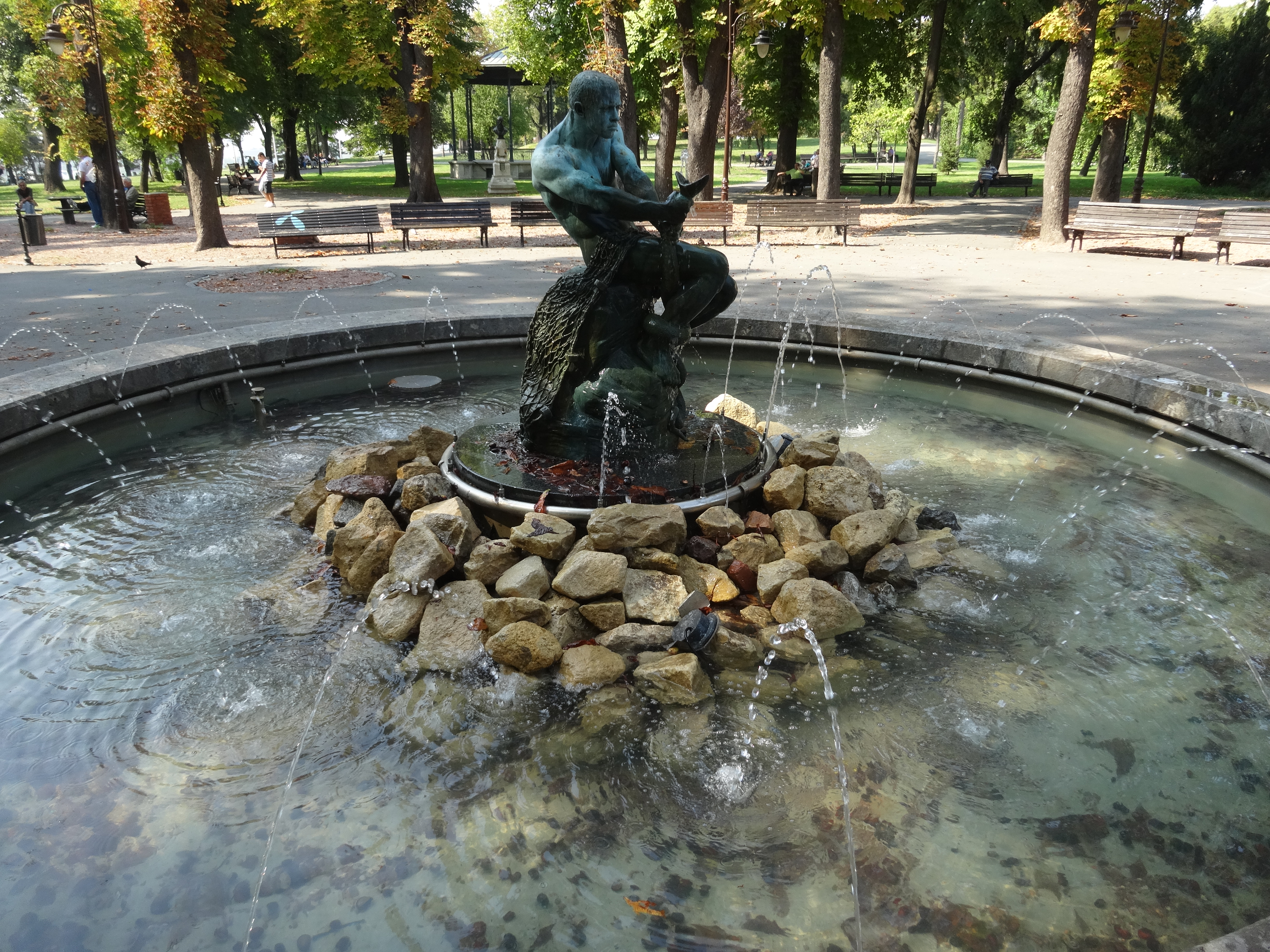 Fisherman statue in Kalemegdan